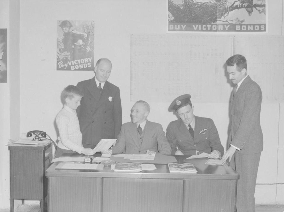 We see a young buyer and sellers, including a soldier of the Air Force, of Victory Bonds in an office of the Notre-Dame-de-Grâce in Montreal.